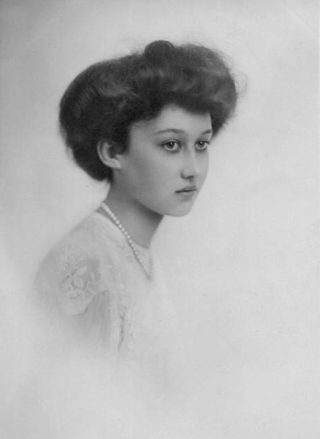 Princess Hilda of Luxemburg (1897 - 1979) c1918